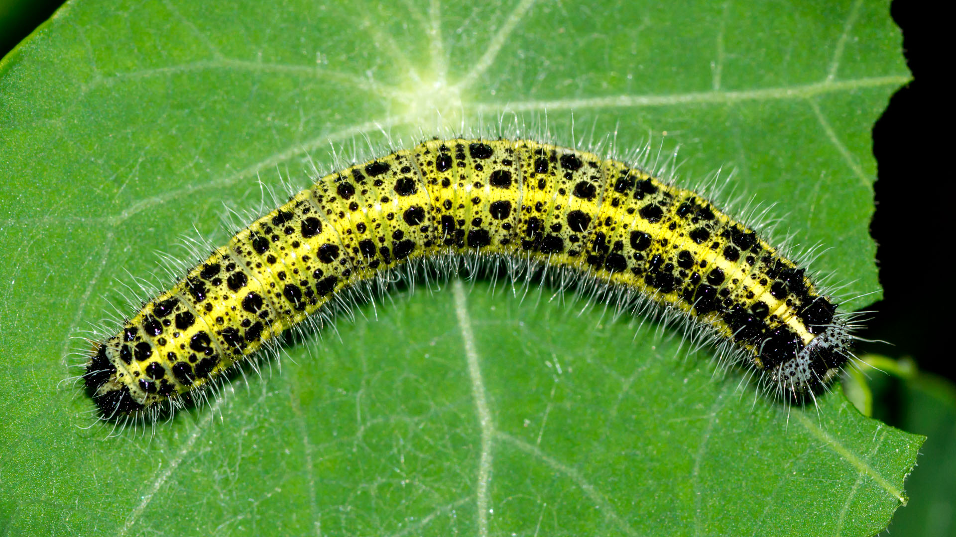 Large white butterfly caterpillar on leaf